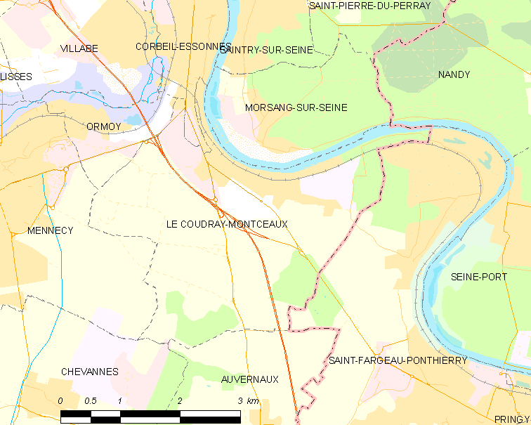 Map of French municipality Le Coudray-Montceaux